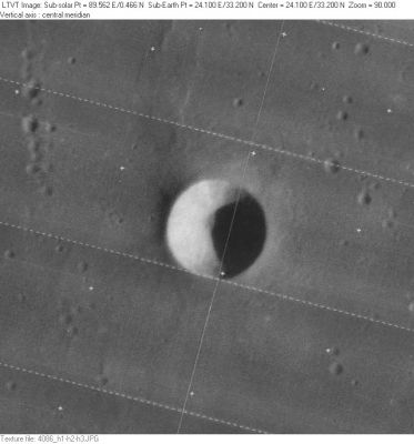 Luther lunar crater - Lunar Orbiter IV image LO-IV-086H LTVT